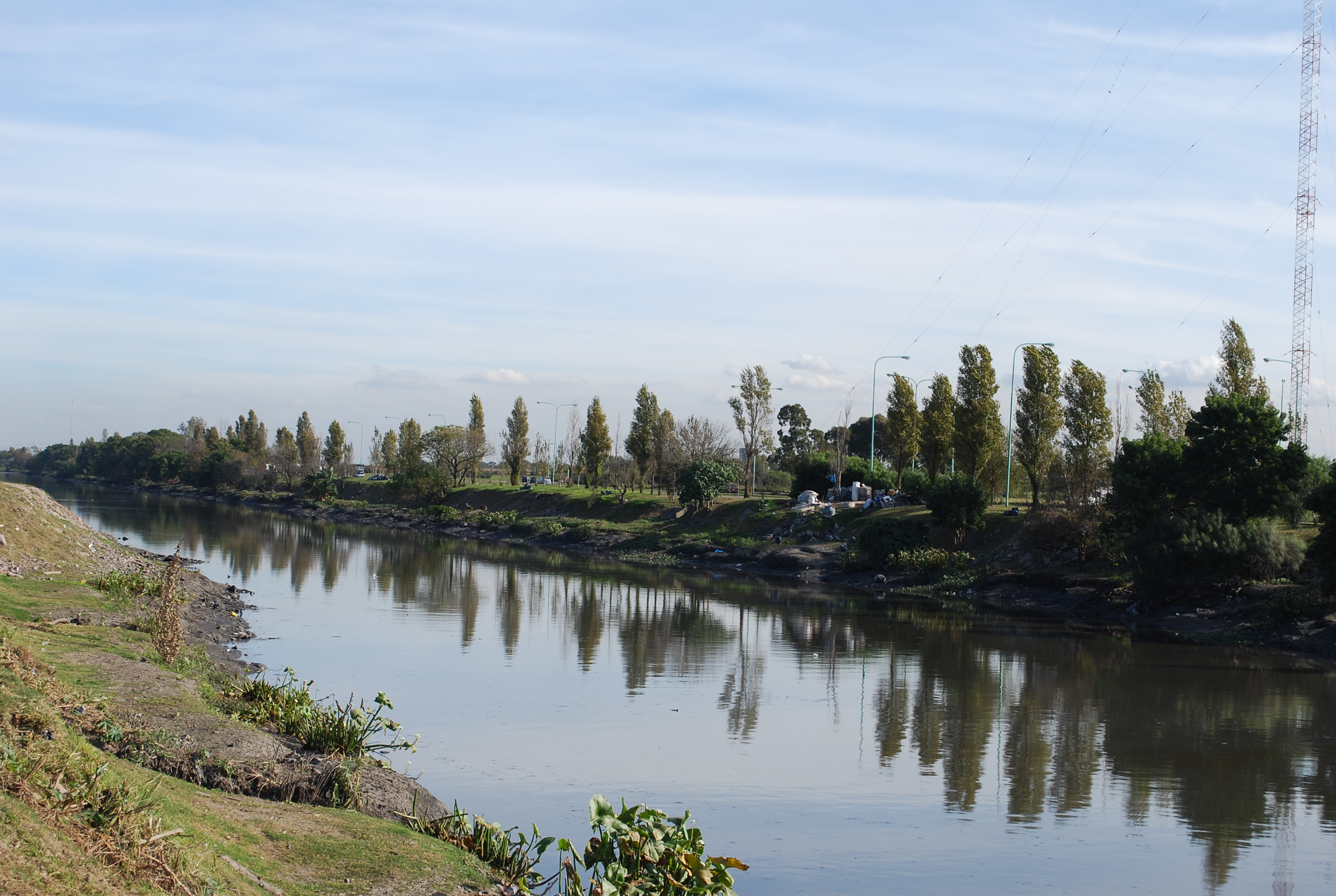 Se retira los restos de basura del espejo de agua.